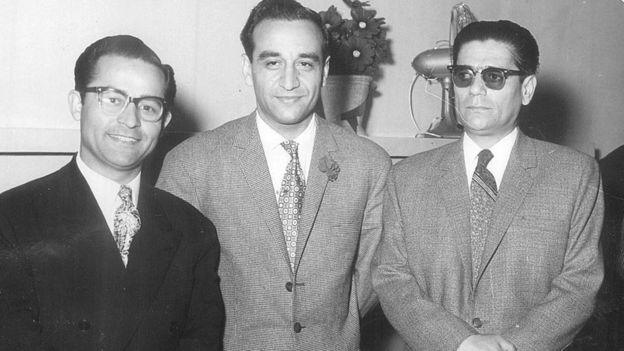 (L to R) Hossein Dehlavi, Faramarz Pyvar, Hossein Tehrani